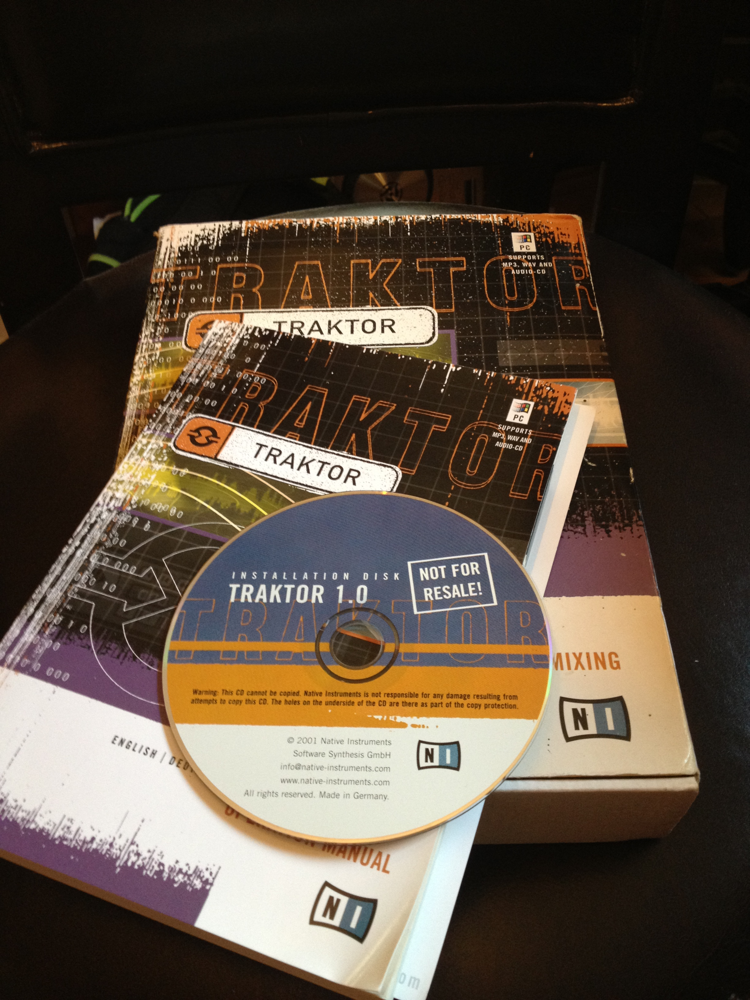 This is the first EVER Traktor DJ Studio software .